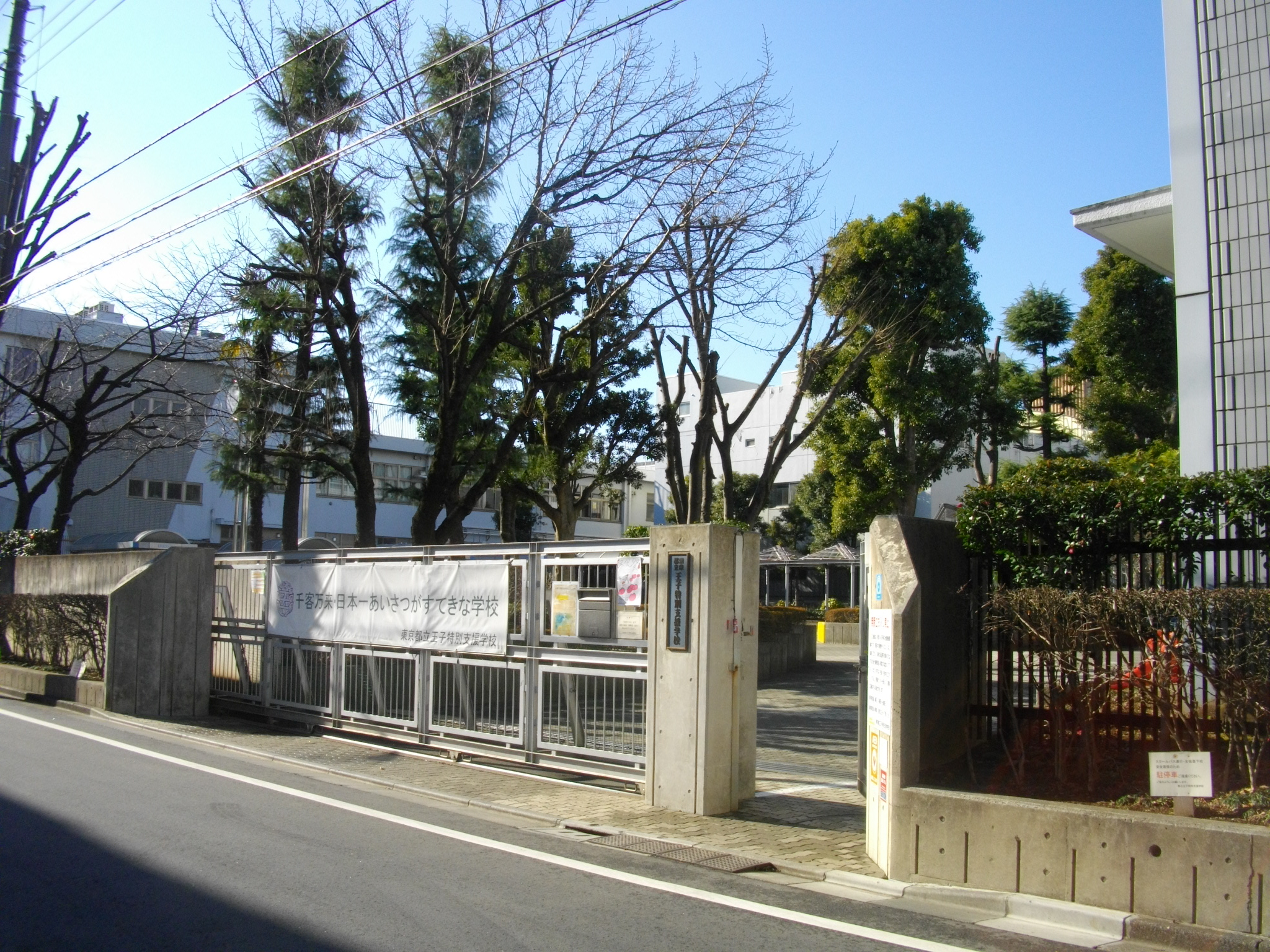 Oji Special Education School